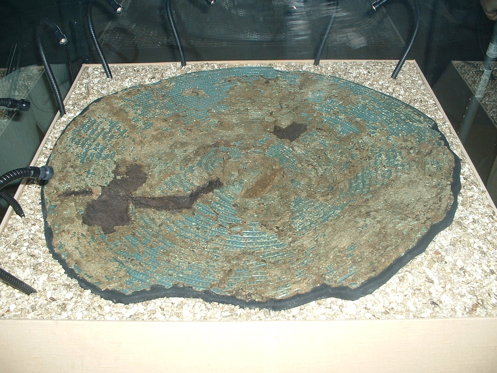 A Yetholm type shield found at South Cadbury. Dating from the bronze age. Photograph was taken in the Somerset County Museum in Taunton on 29-Oct-05. Found by Archaeologist Ben Burston.